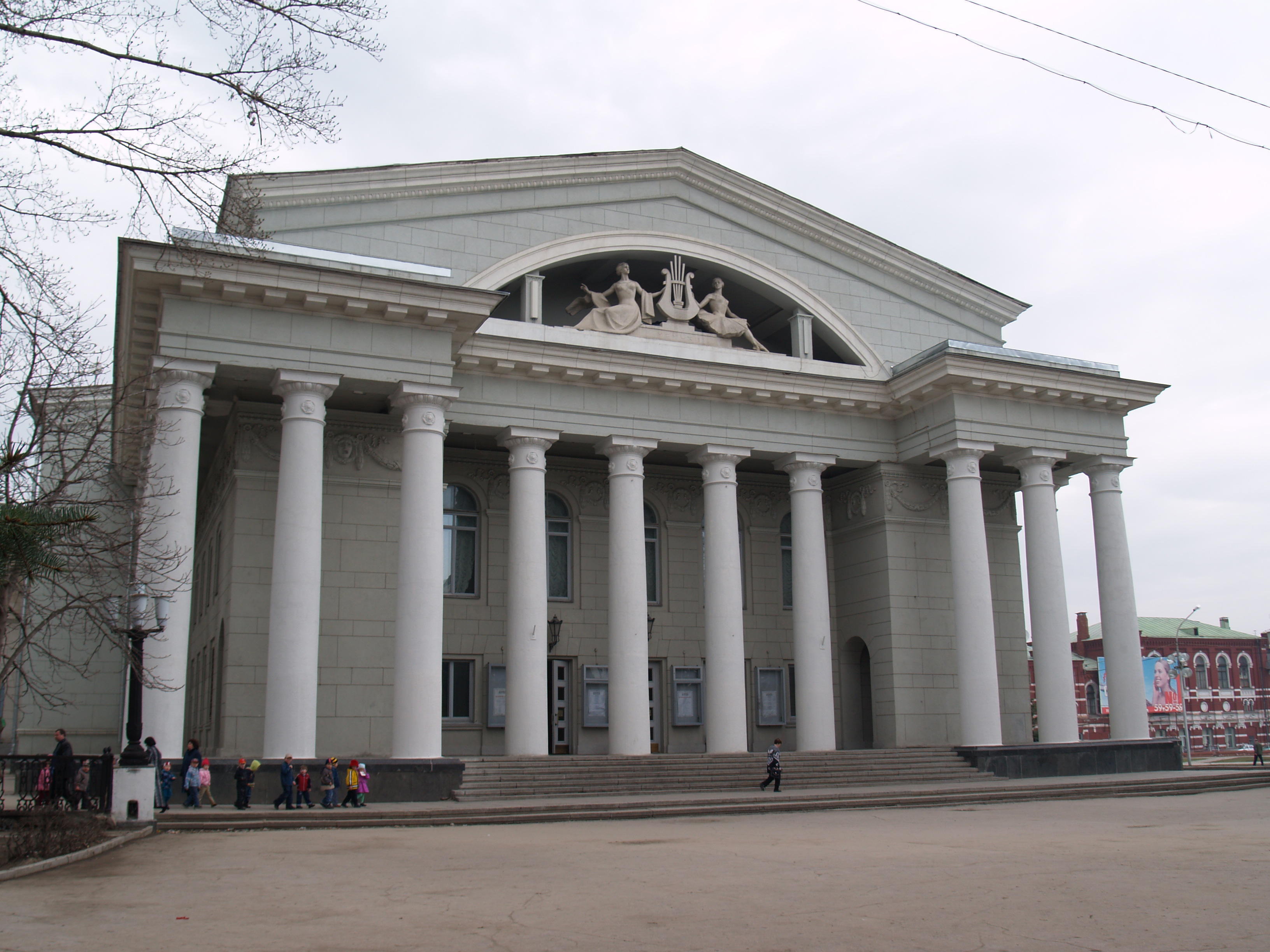 saratov